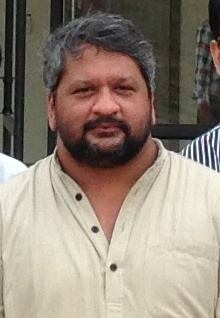 this pic is the cropped version of original pic which i have taken on 9-6-2014